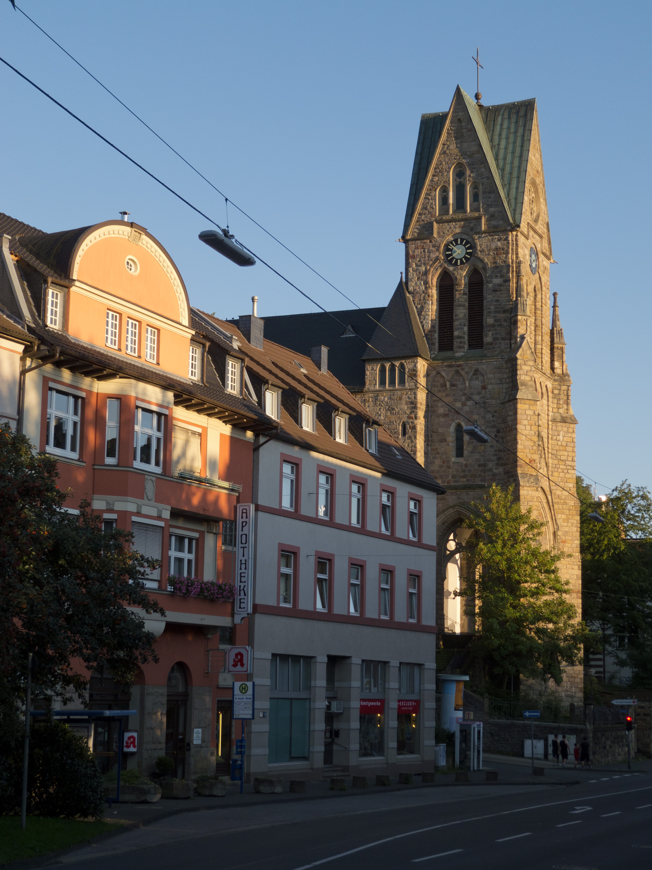 Altenhagener Straße in Hagen Altenhagen with tower of St. Josephs Church